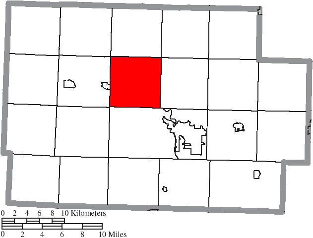 Map of the municipal and township boundaries of Coshocton County, Ohio, United States, as of the 2000 census, with the location of Bethlehem Township highlighted. Township borders are shown only in unincorporated areas in order to differentiate incorporated and unincorporated areas more clearly.